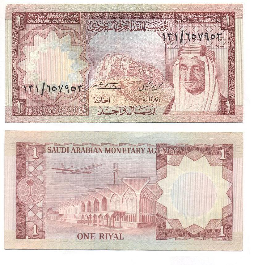 Banknotes saudi arabian